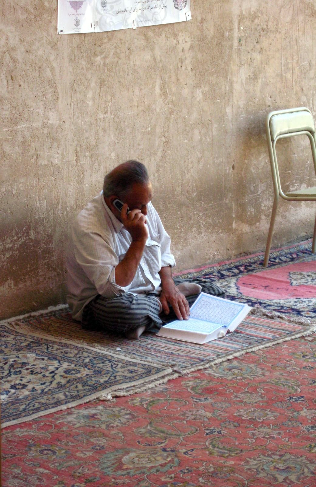 Hallo? Salam Mahmud. You know what?!